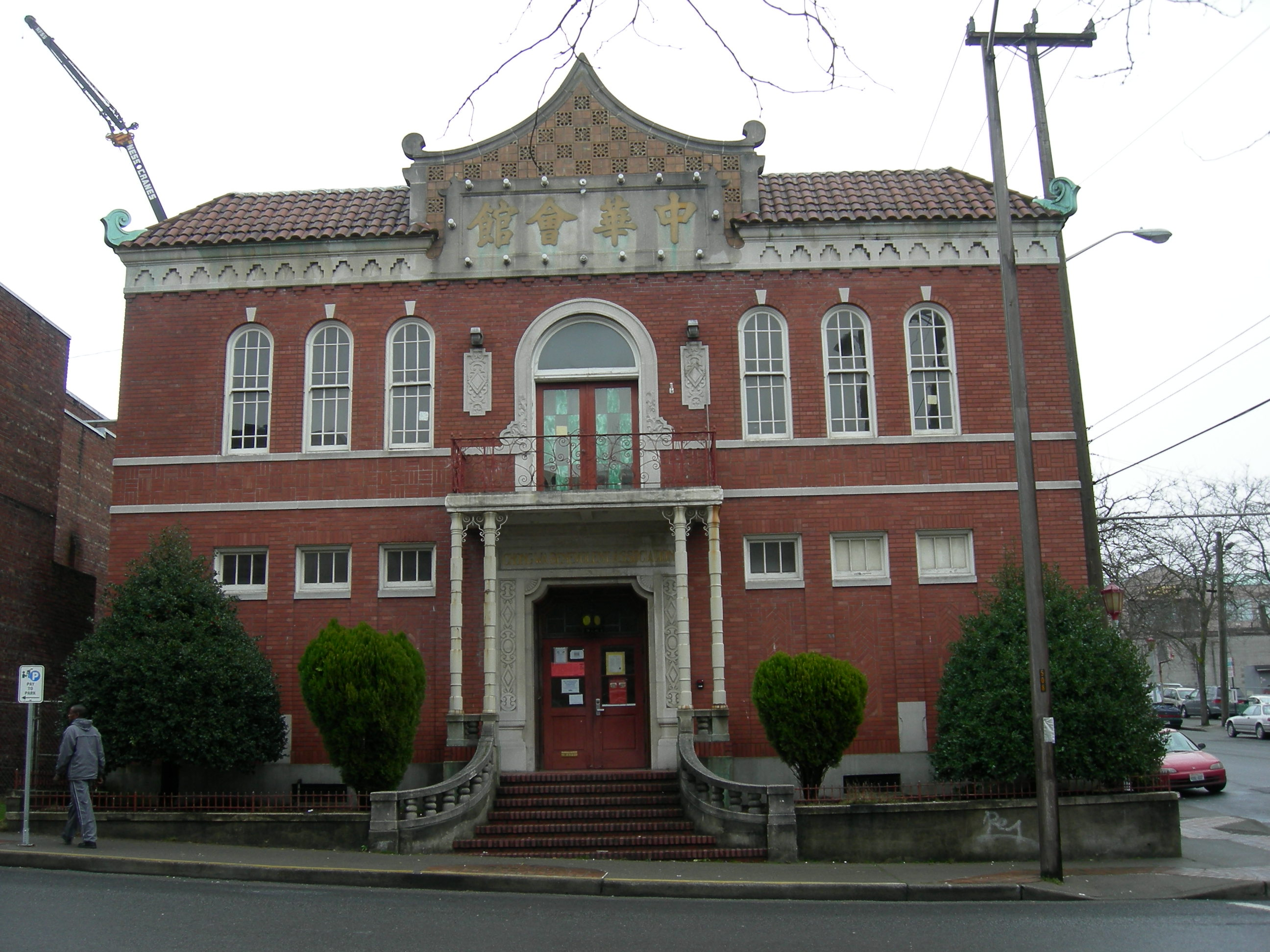 Chong Wa Benevolent Association (and Chinese language school), 522 Seventh Ave. S., International District, Seattle, Washington. The building dates from 1929, the association by 1915, possibly as early as 1910.